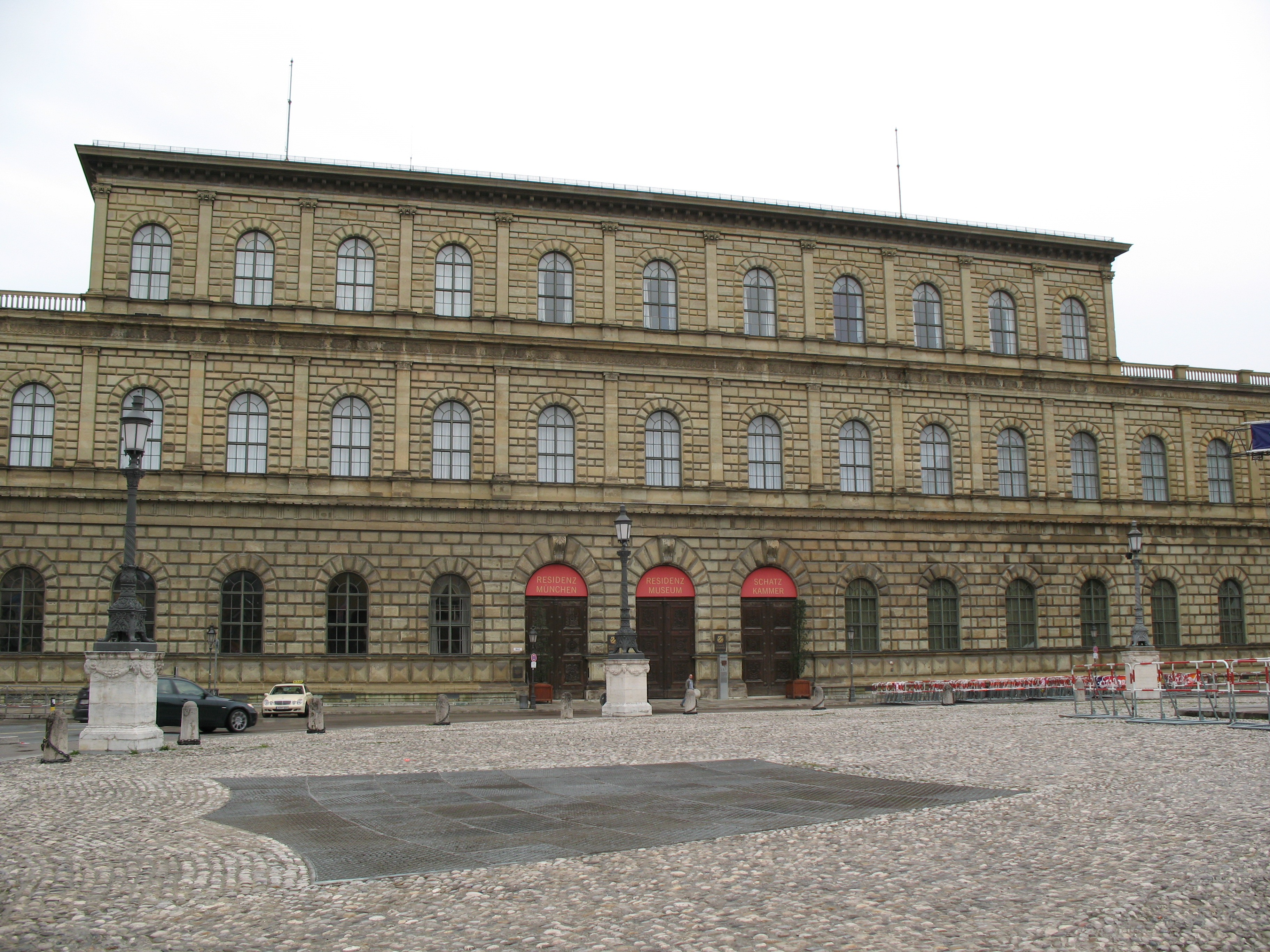 Imperial Residence, Munich, Bavarian, Germany